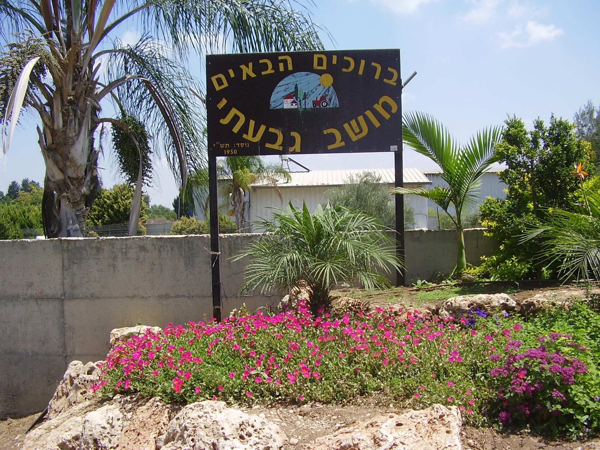 Giv\'ati Village